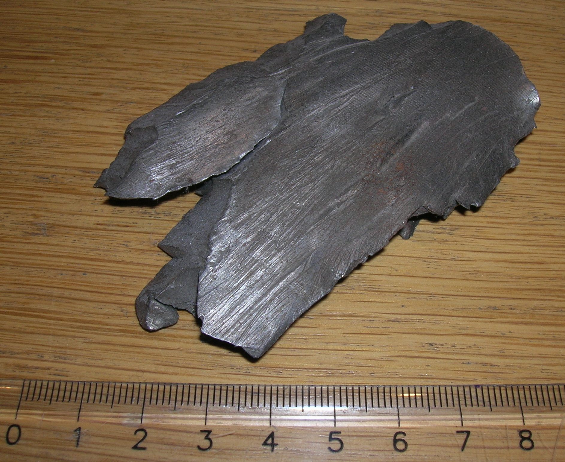 fragments from a grenate. The numbers on the ruler is in cm